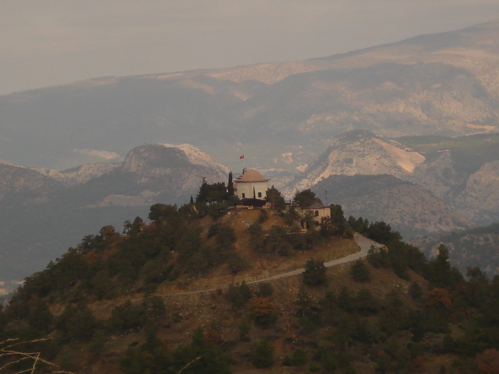 Dursun Fakih's grave in Söğüt